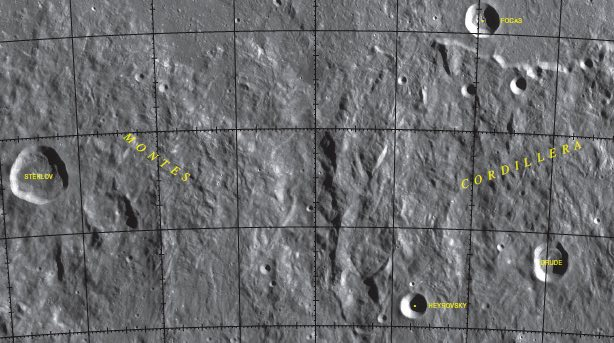 Part of the chart LAC-123